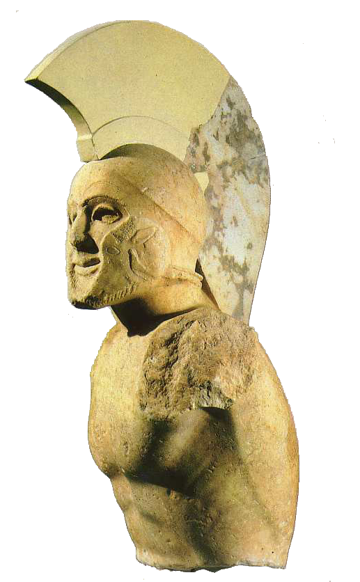 Marble statue of a helmed hoplite (5th century BC), maybe Leonidas, Sparta, Archæological Museum of Sparta, Greece.